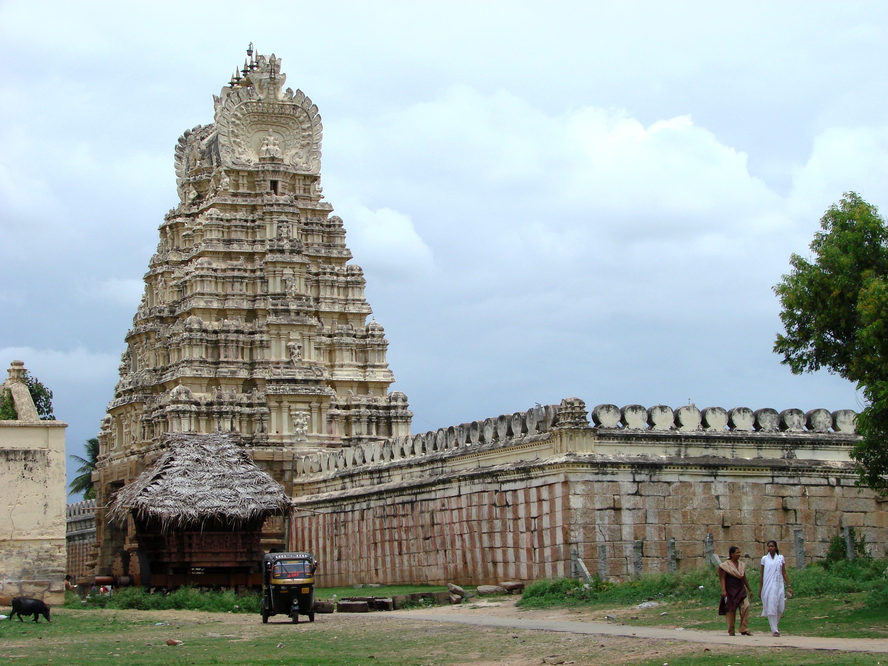 Sri Ranganathaswamy Temple, Island of Srirangapatnam, near Mysore, southern India. June 2008.